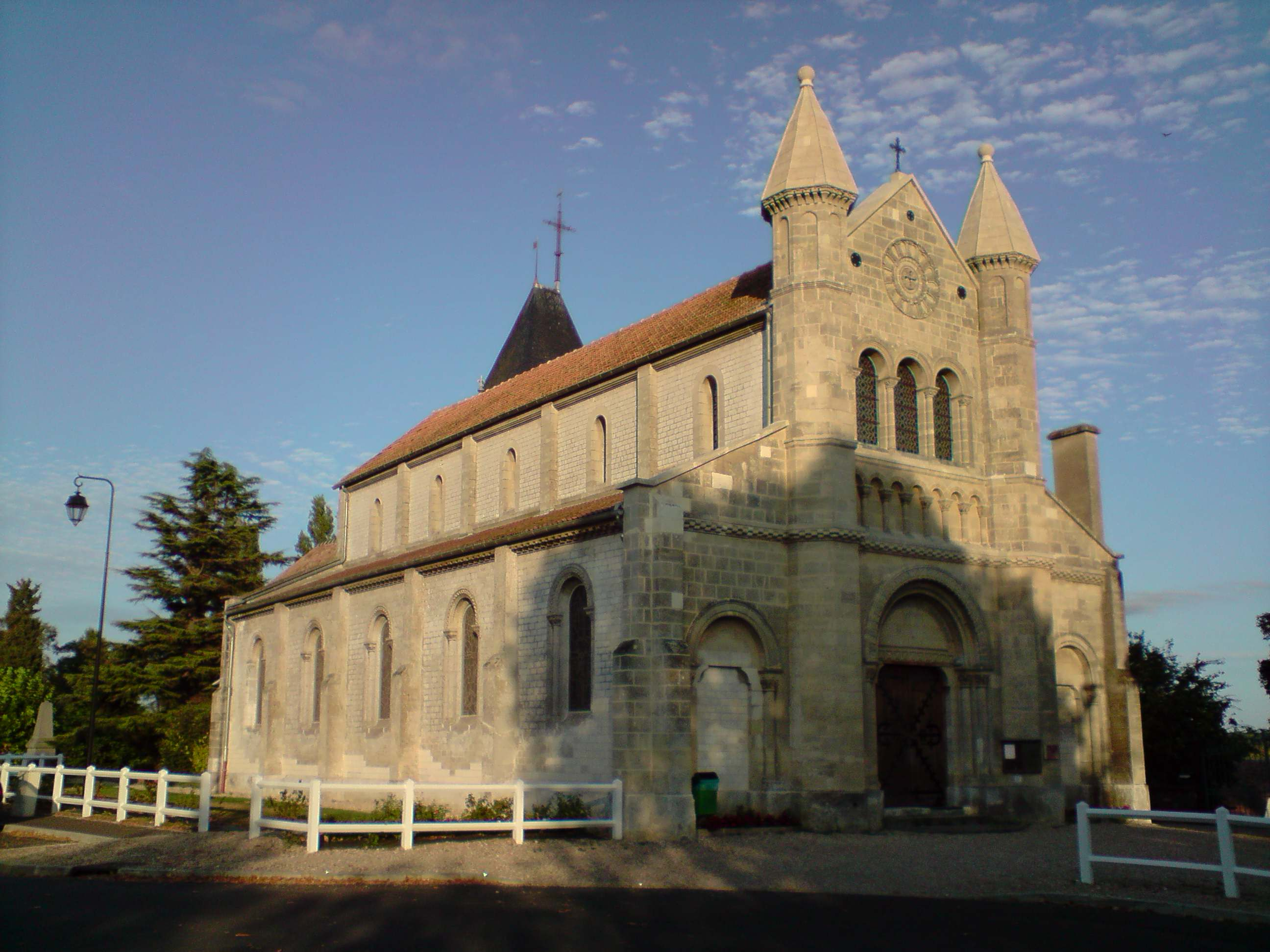 Church of the city of Muids, Eure, France.